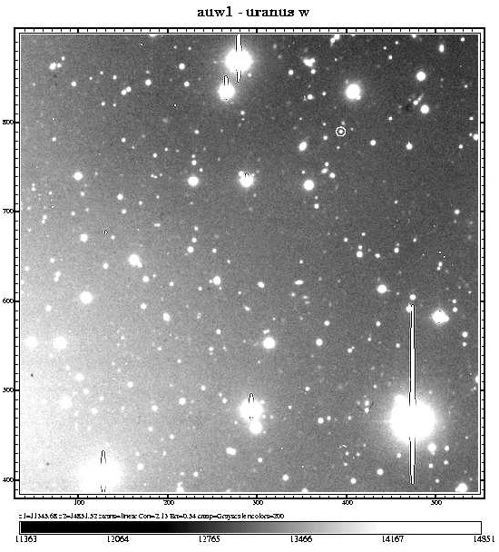 "Discovery image" made Sept. 6, 1997, at the Palomar Observatory by Philip Nicholson, Joseph Burns, Brett Gladman and J.J. Kavelaars. The brighter of the two "new" moons of Uranus, S/1997 U2, is circled in the upper right portion of the frame. S/1997 U1 does not appear in this image. The bright light in the lower left is from the planet, which is out of the frame. The spikes extending from some stars are artifacts of the CCD electronic imaging process.